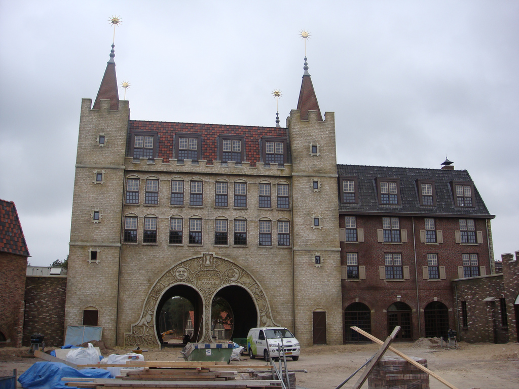 Gatehouse ("Poorthuys") of Bosrijk, a holiday village belonging to the Efteling theme park, under construction.